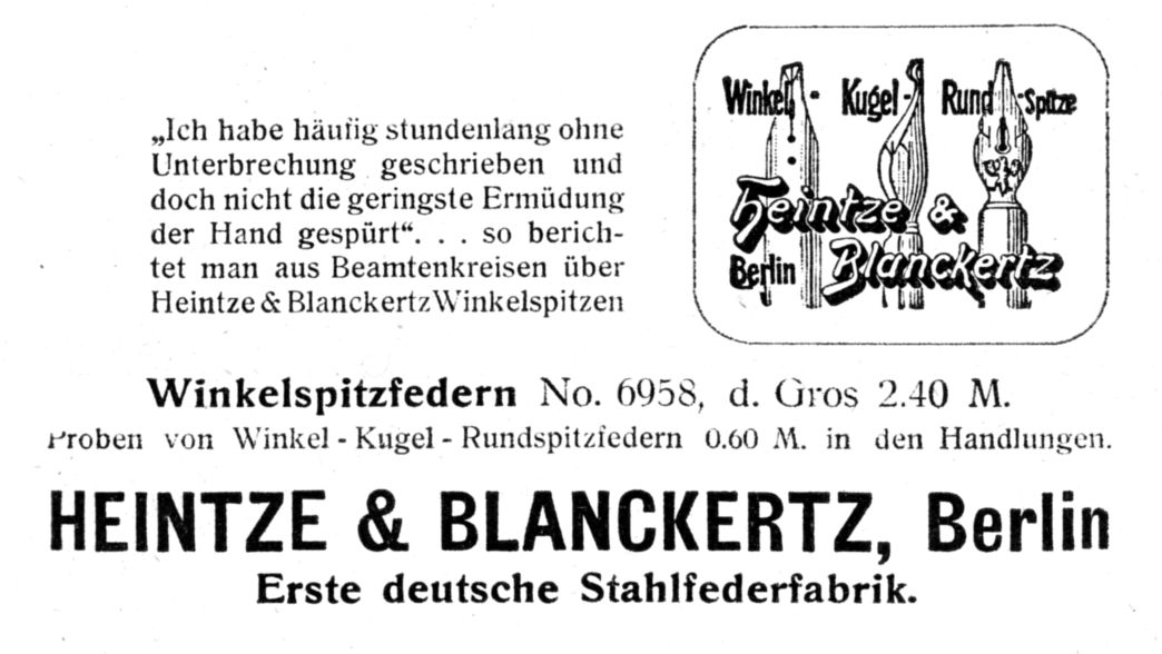 Advertisement of Neintze & Blanckertz, Berlin.